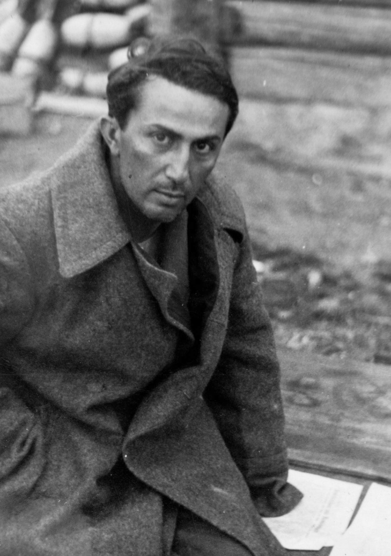 Operation Barbarossa: Unseen Second World War photographs by Field Marshal Wolfram von Richthofen. Stalin's son captured.